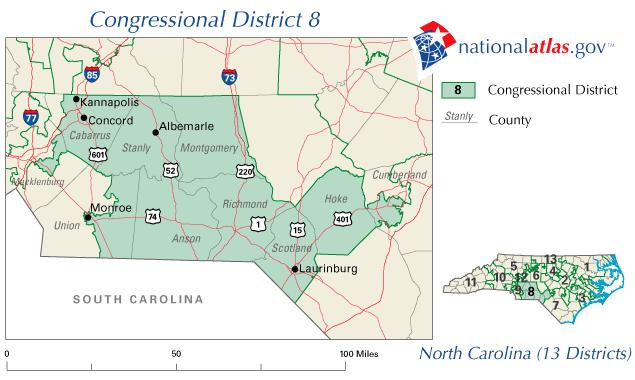 North Carolina's 8th congressional district prior to 2012 redistricting